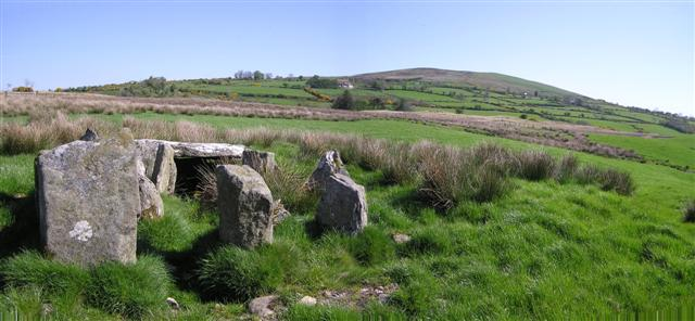 Cashelbune Cairn, Loughash A well preserved ancient site.